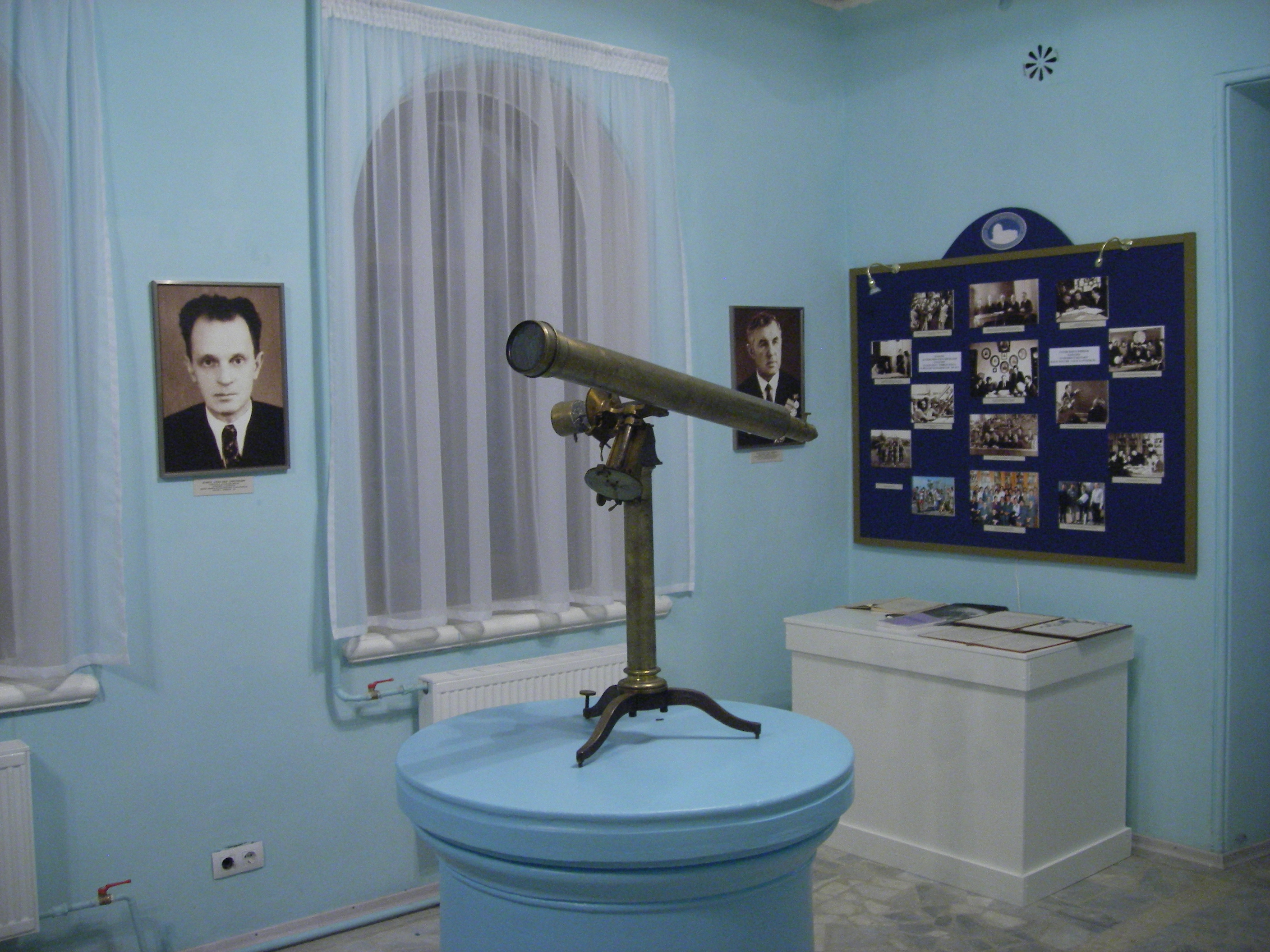 EAO museum